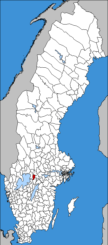 kommun (municipality) of Sweden